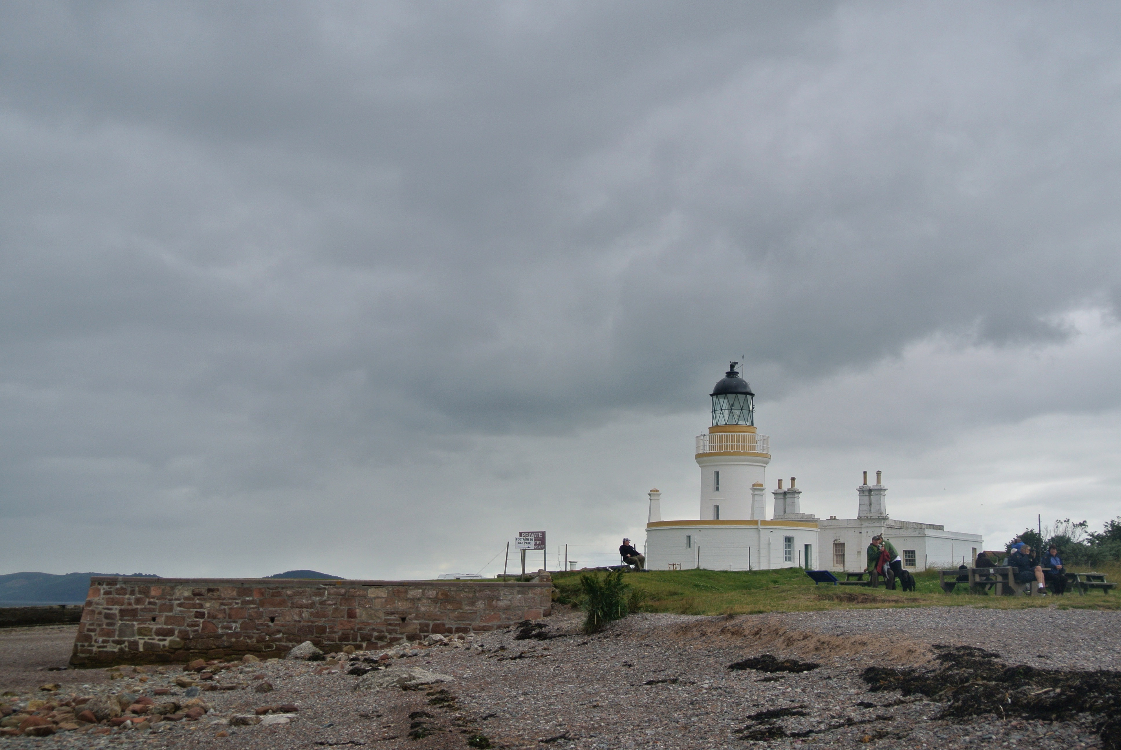 The Chanonry lighthouse, Chanonry Point, Scotland, UK.